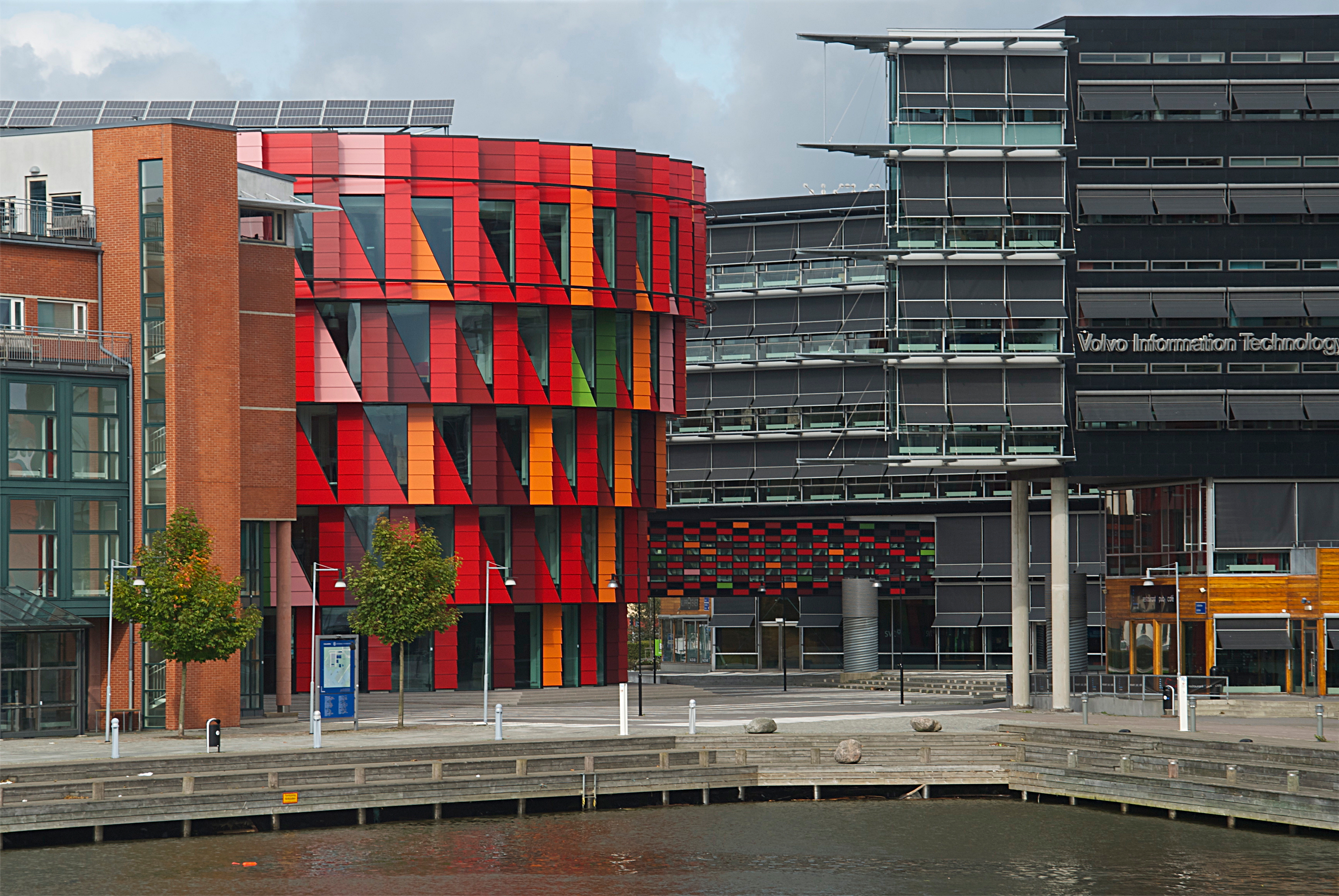 Kuggen (kuggen means the cog) is a office building in Lindholmen, Gothenburg designed by Gert Wingårdh. The house was built by Chalmers University, and is part of Lindholmen Science Park. Kuggen is one of the nominated contributions to the World Architecture Festival, 2-4 November 2011 in Barcelona, in the category "Learning".